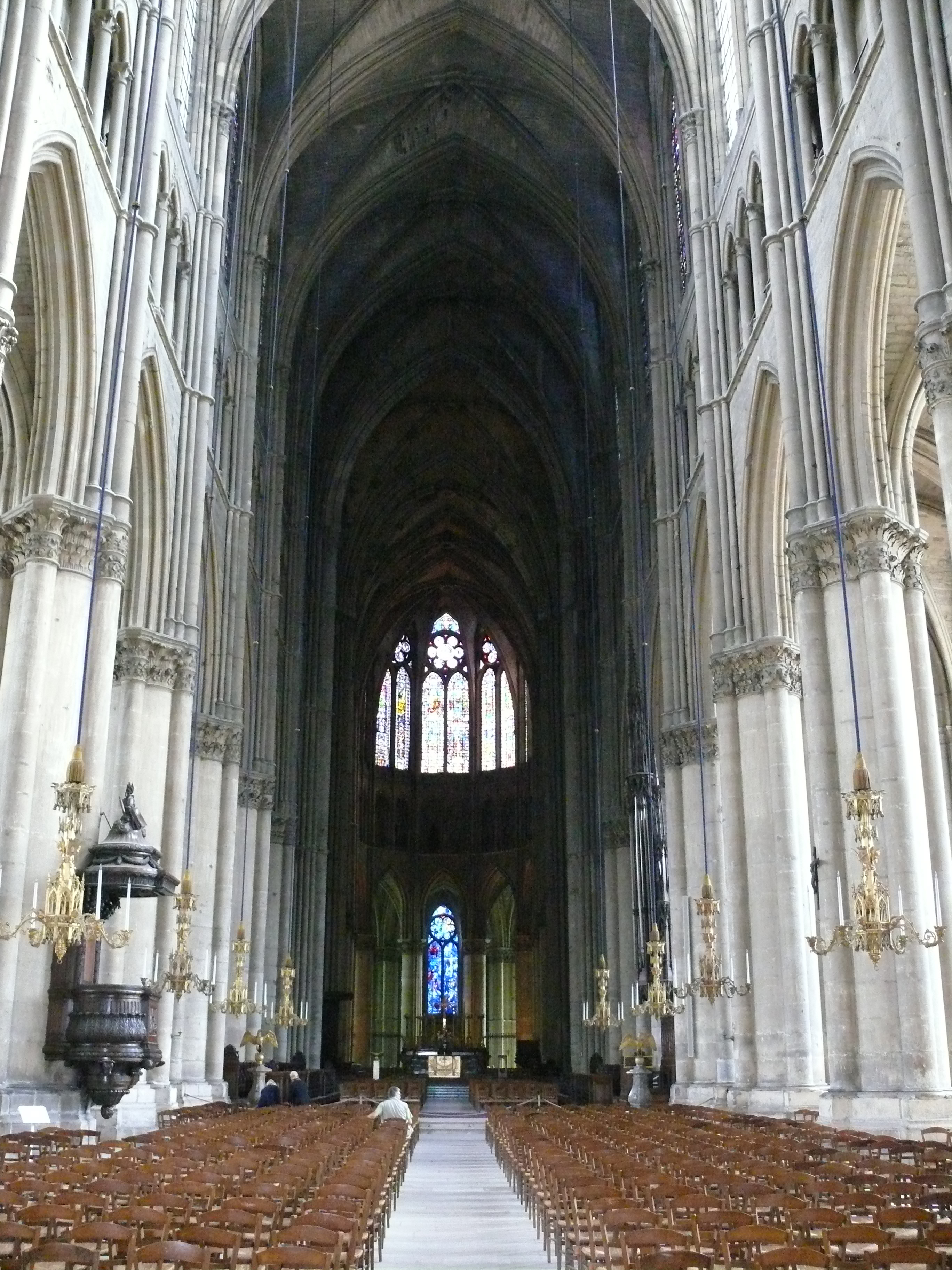 Notre-Dame de Reims (Our Lady of Rheims) is the cathedral of Reims, where the kings of France were once crowned. It replaces an older church, destroyed by a fire in 1211, which was built on the site of the basilica where Clovis was baptized by Saint Remi, bishop of Reims, in AD 496. A major site for tourism in the Champagne region, it accommodates nearly one and a half a million visitors yearly.